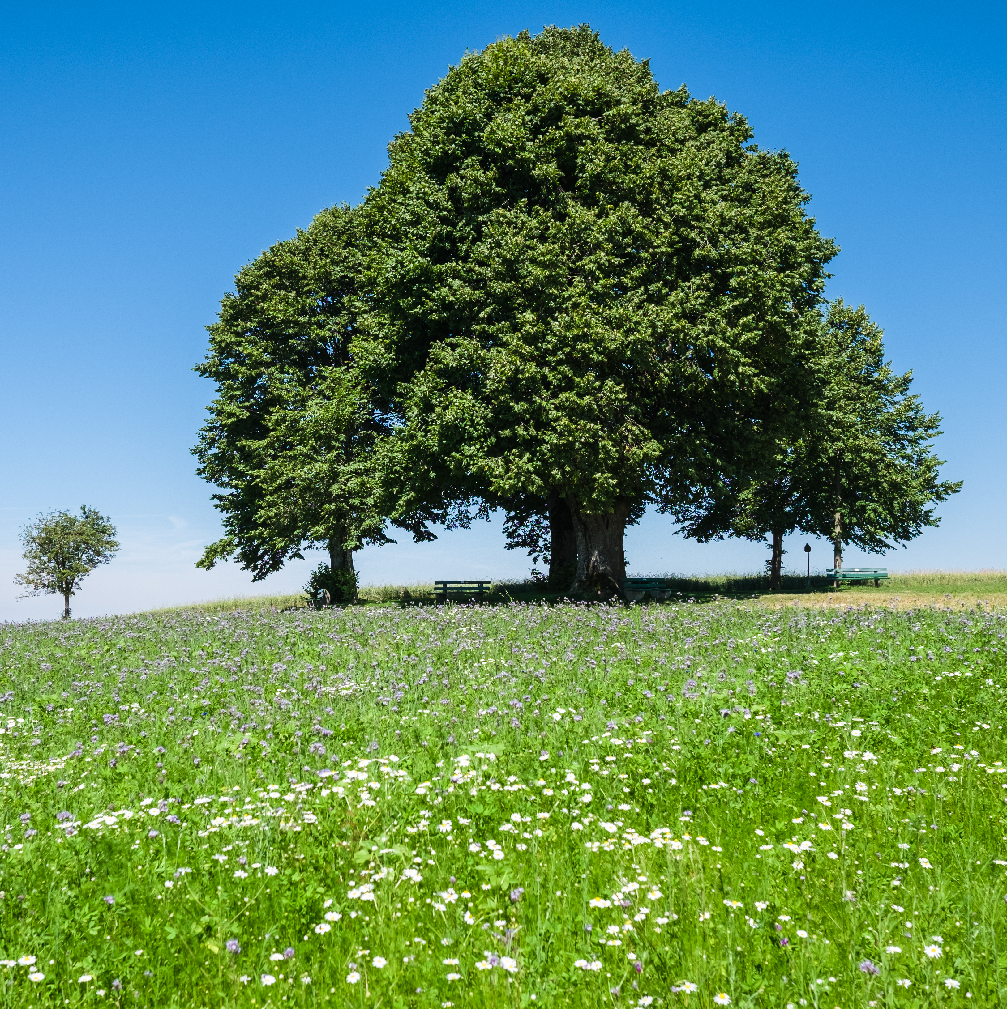 Heiligenberg, district Bodenseekreis, Baden-Württemberg, Germany